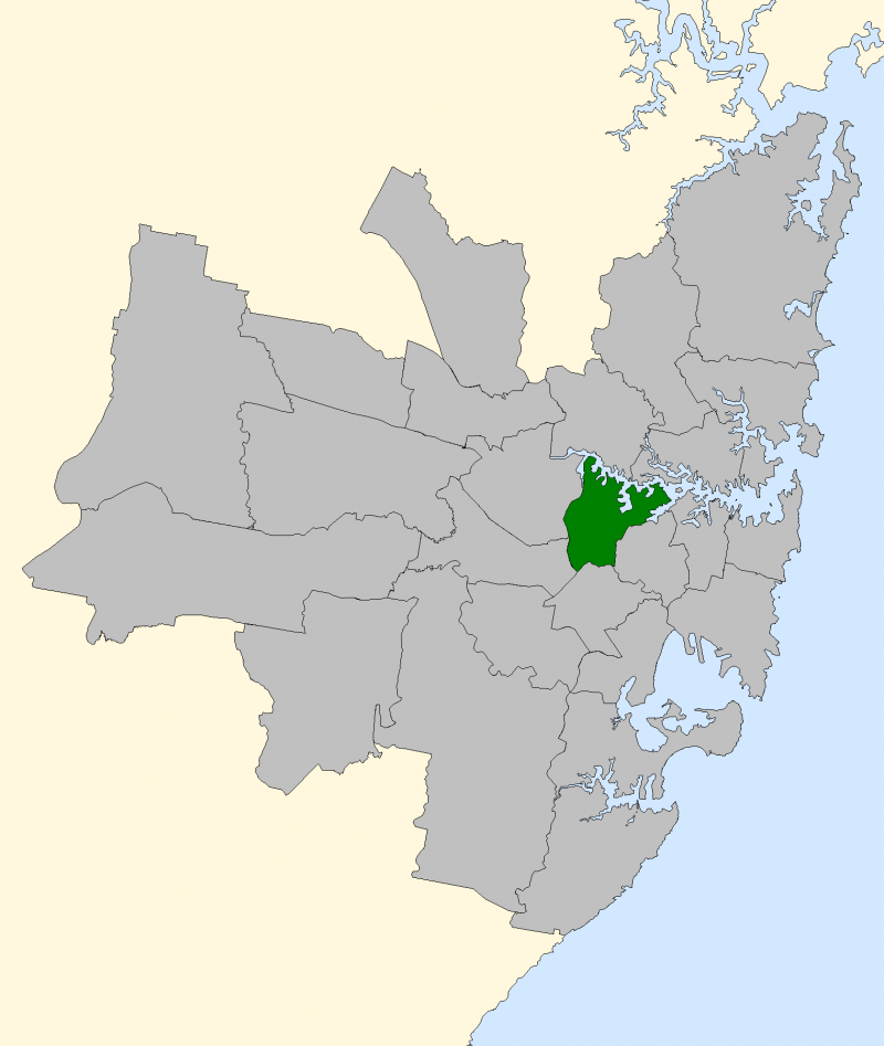 Division of Lowe 2007, with surrounding Sydney divisions, based on official AEC data